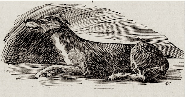 Sketch of a stuffed and mounted Lazarus.